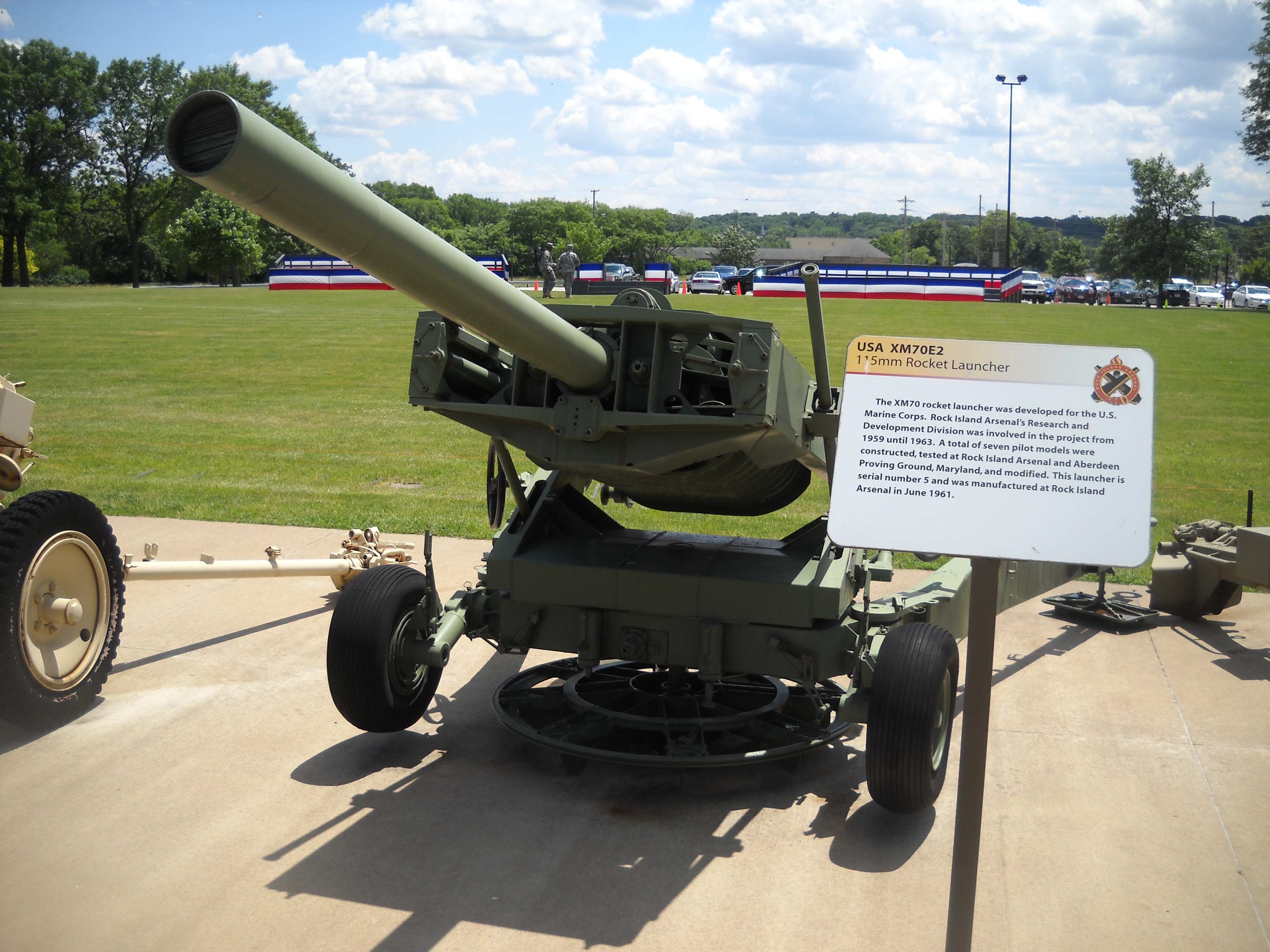 XM70E2 Towed Rocket Launcher viewed from the front, the 5th of 7 ever made